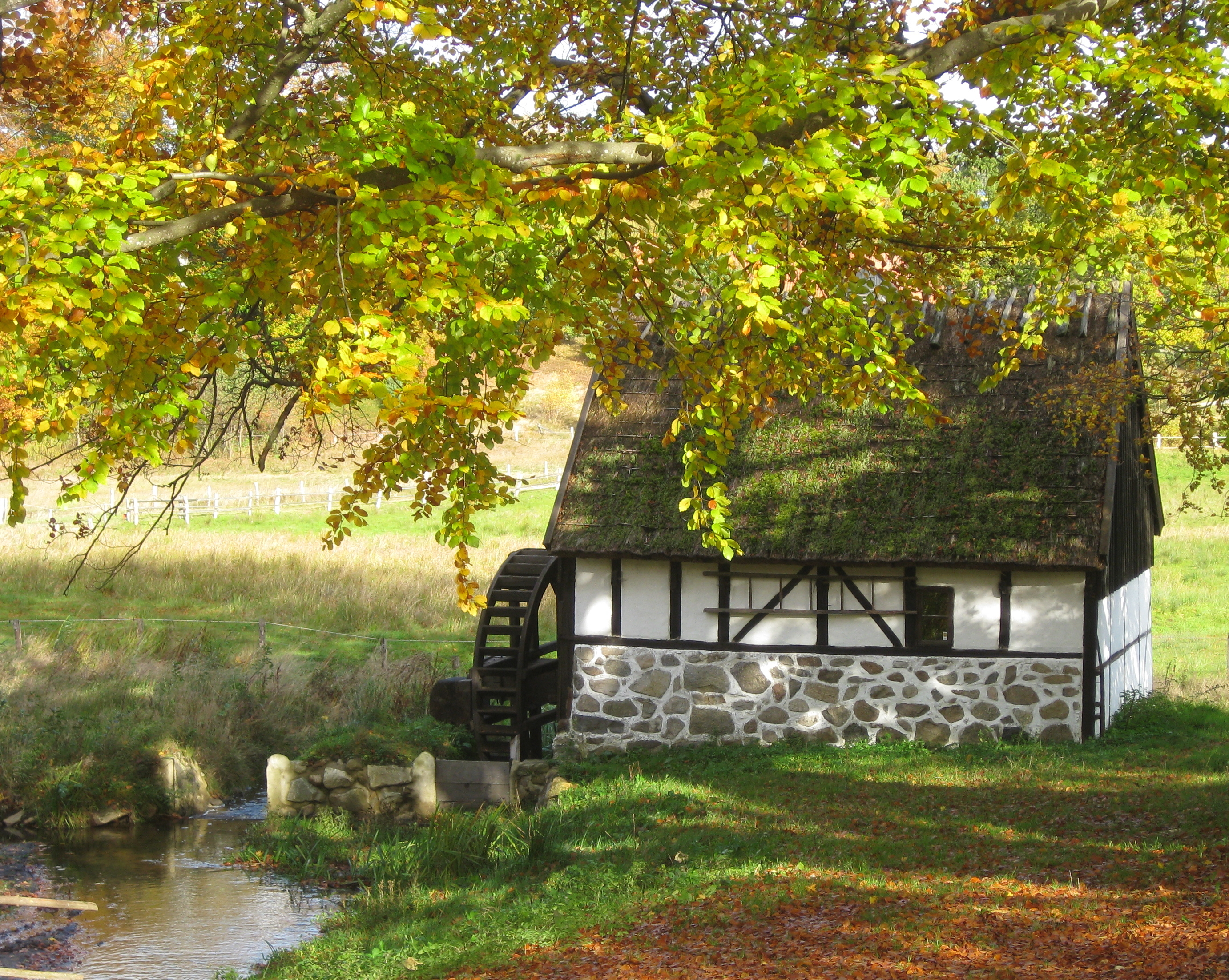 Water mill at Kulturens Östarp in Skåne, Sweden.